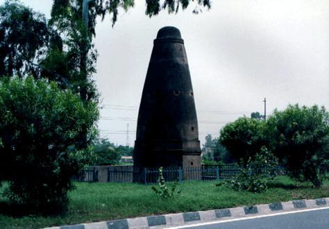 Kos Minar